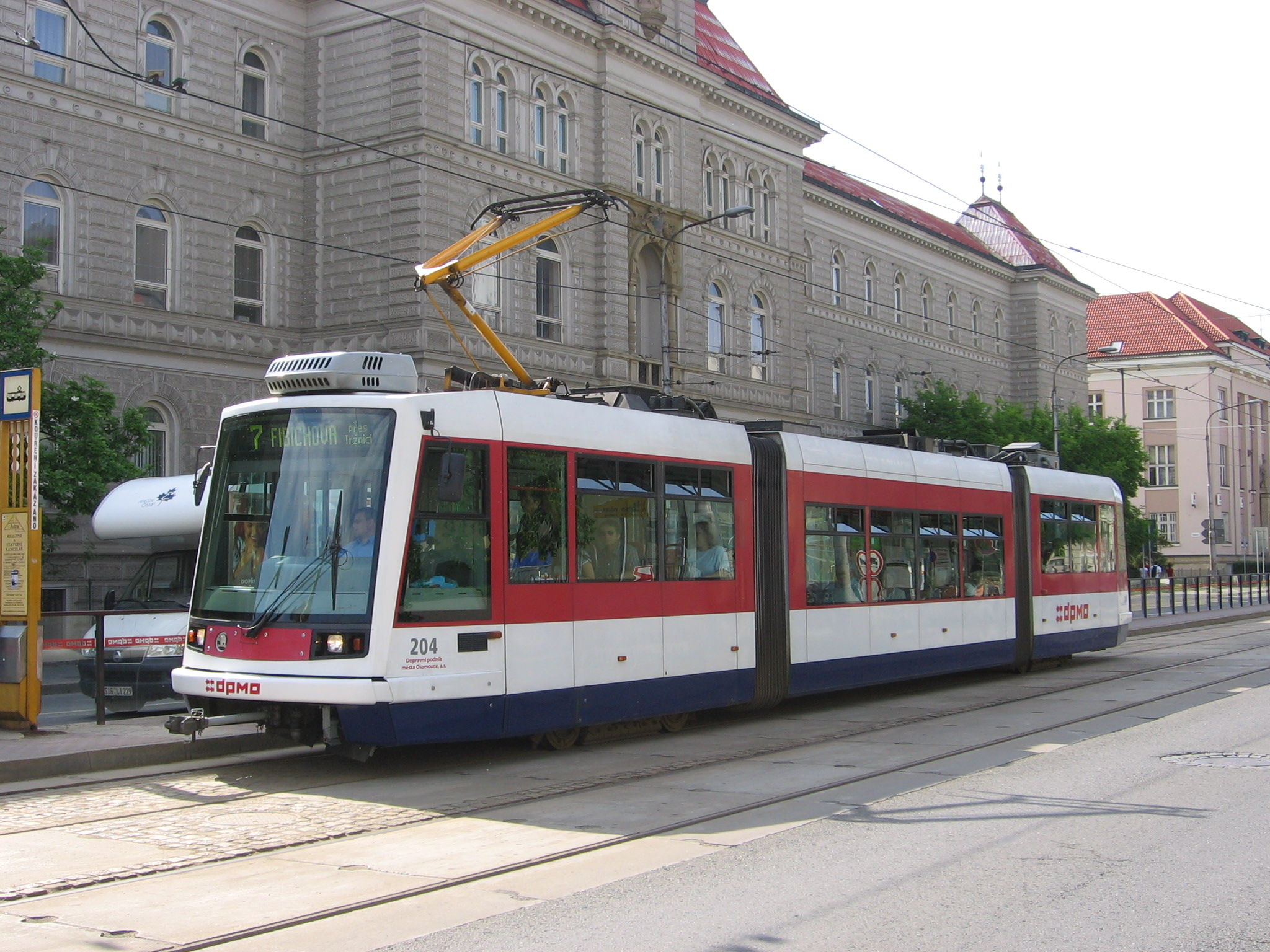 Tram Škoda - Inekon LTM 10.08 (ASTRA) in Olomouc (Czech Republic)